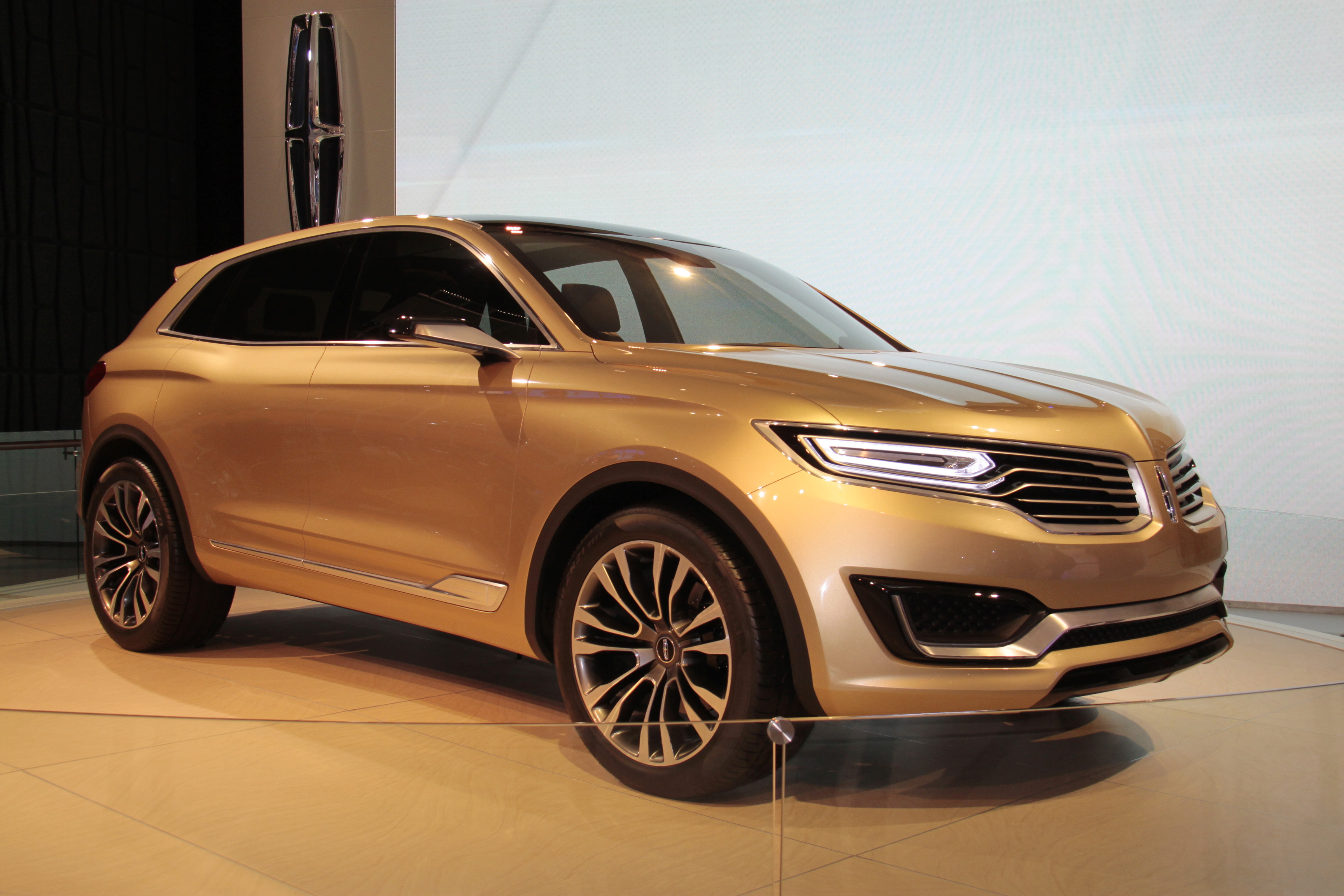 Lincoln MKX concept at Auto China 2014 (Beijing)